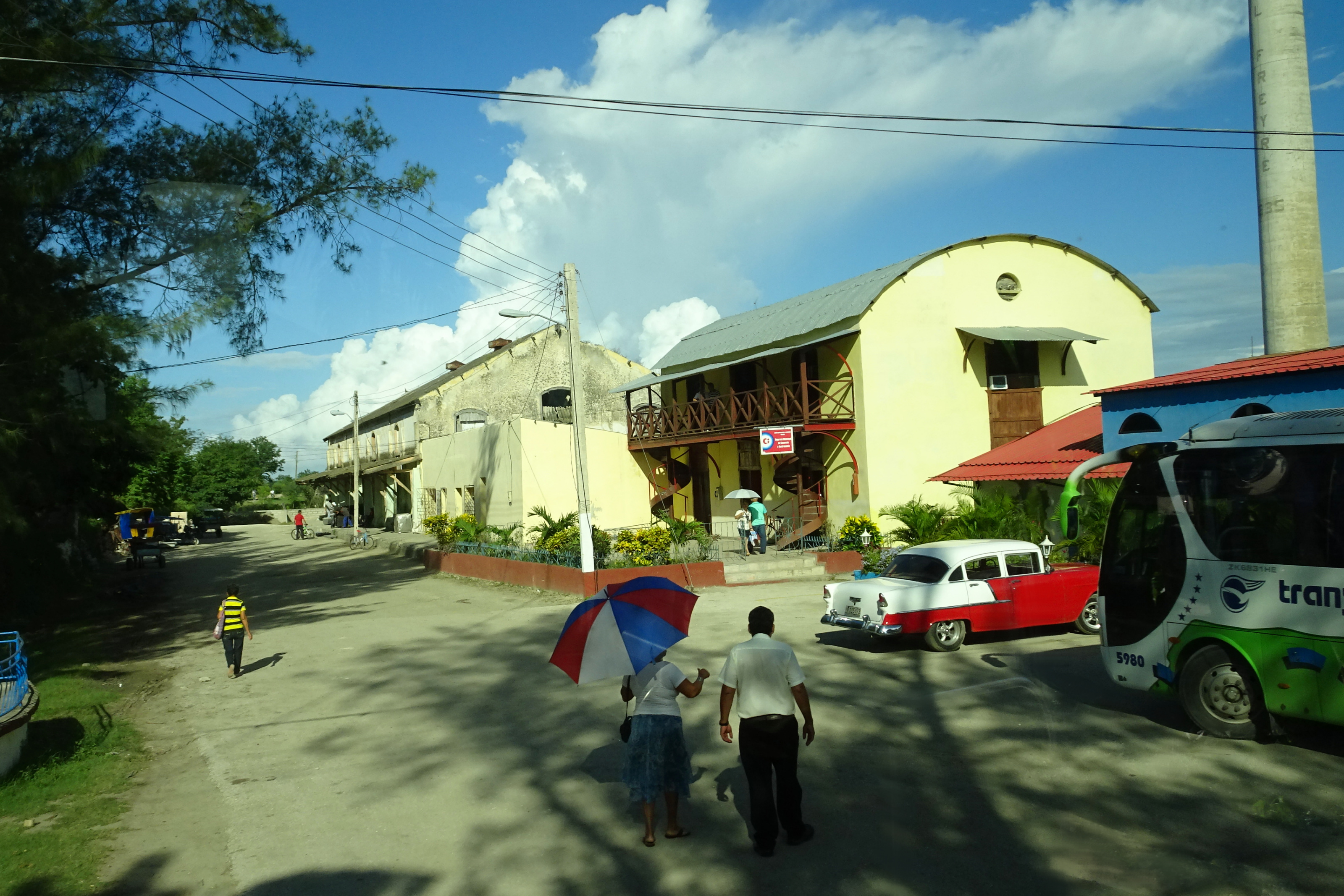 Rafael Freyre, Holguin Province, Cuba